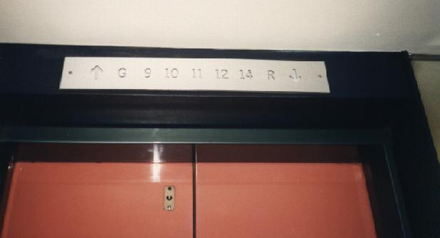 13 is a badluck, taken by דוד שי